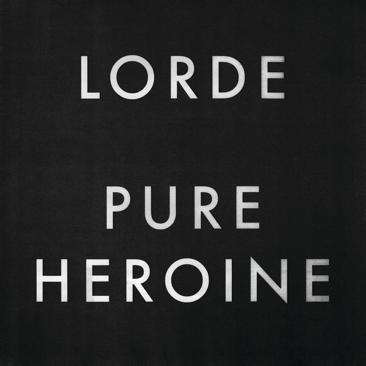 This is the cover art for Pure Heroine by the artist Lorde. The cover art copyright is believed to belong to the label, Universal Music, or the graphic artist(s).